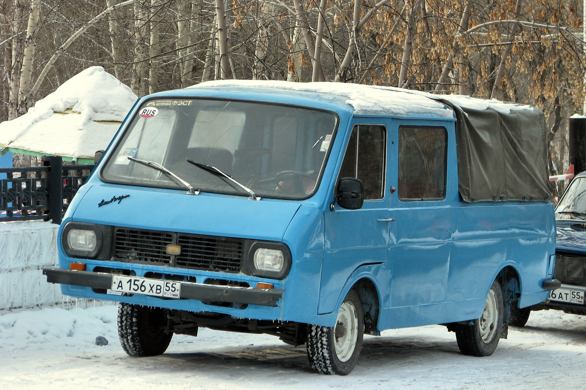 RAF-2909, Omsk